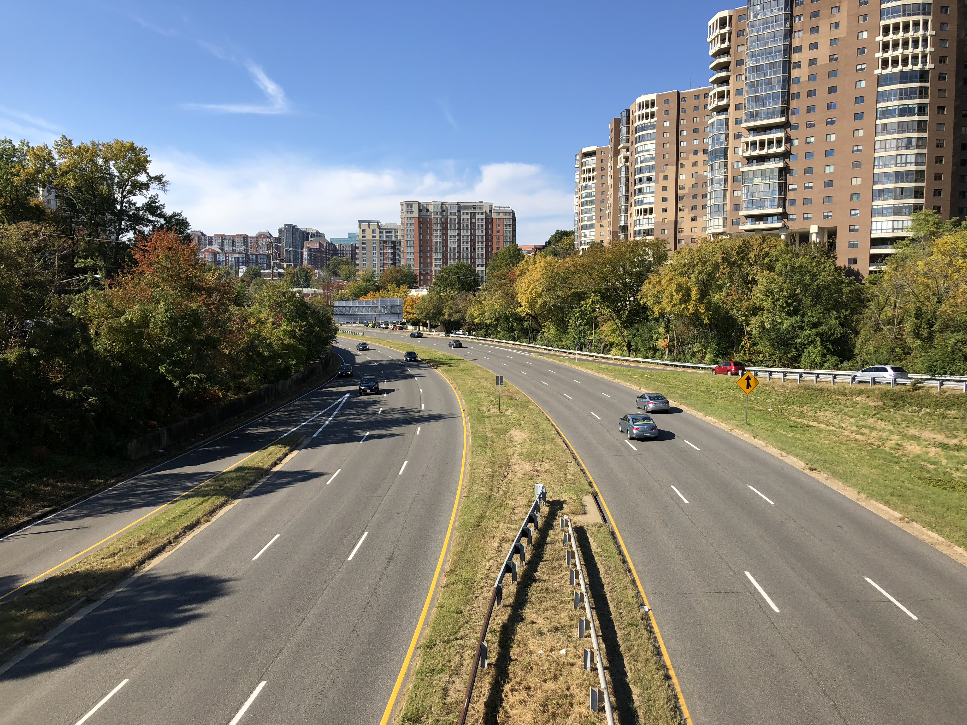 View west along U.S. Route 50 (Arlington Boulevard) from the overpass for North Meade Street in Arlington County, Virginia